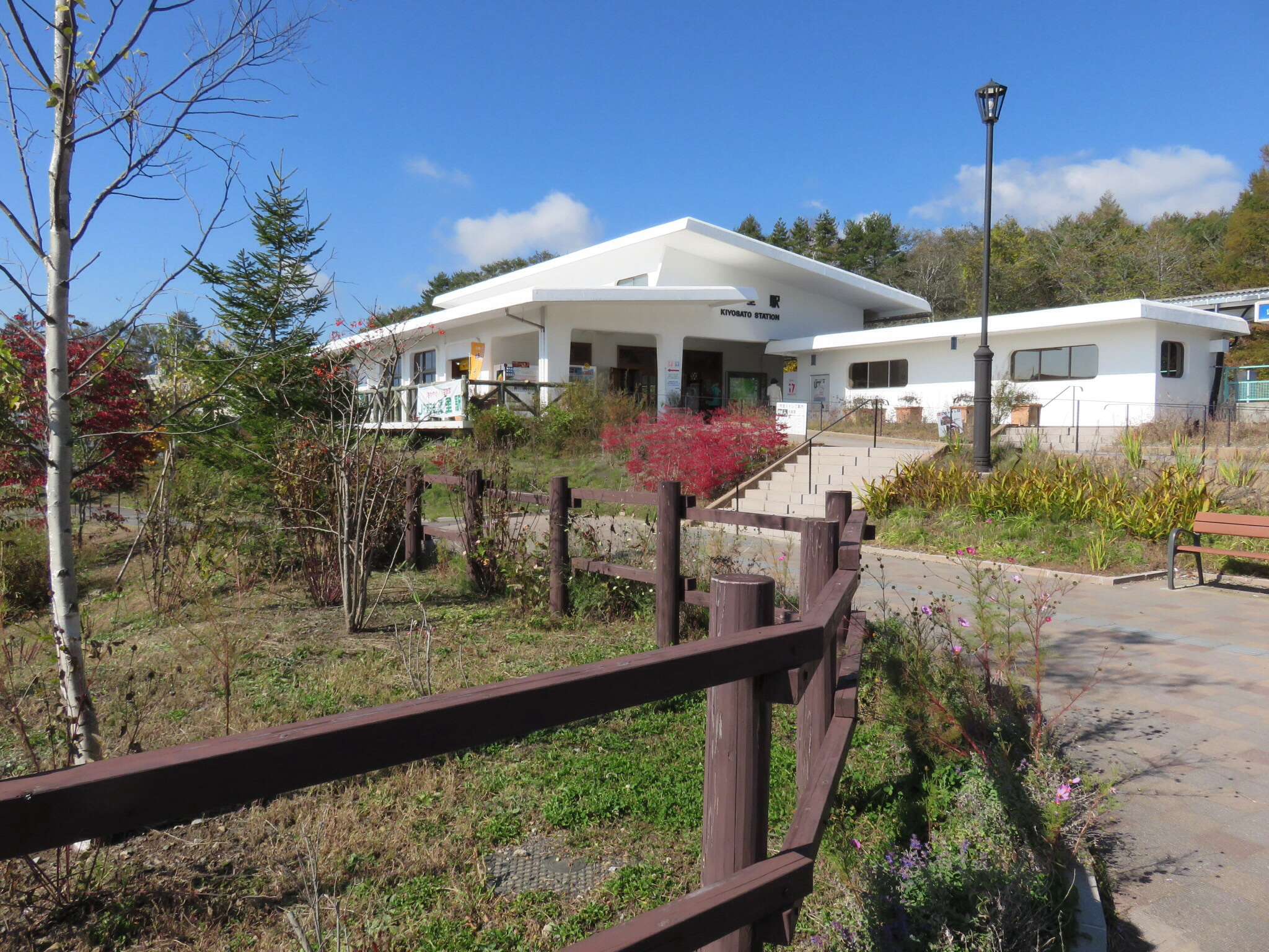 Kiyosato Station Building October 2014